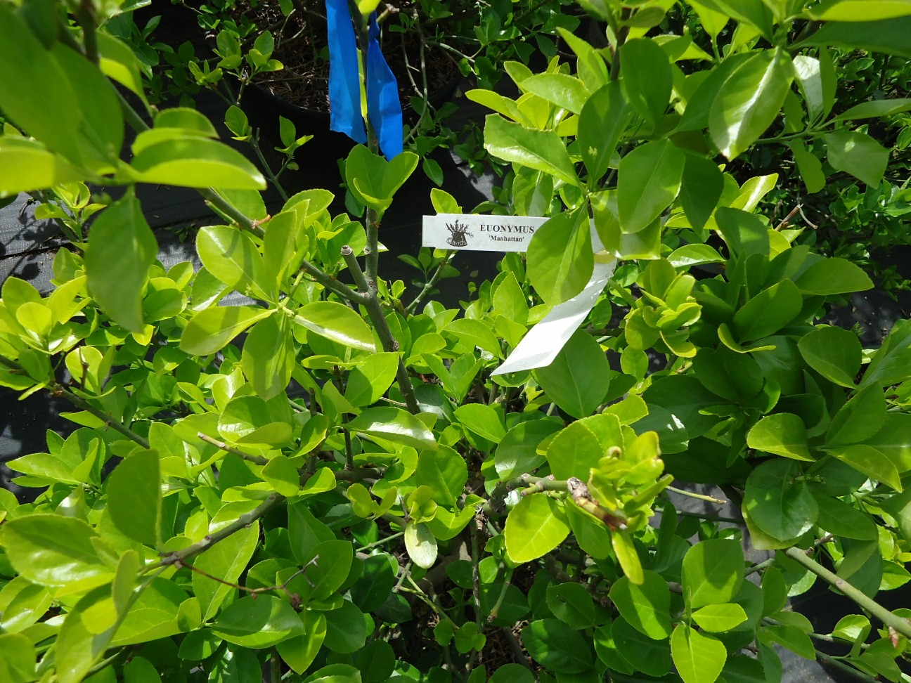 Euonymus plants in a nursery in Cranford, New Jersey on April 14, 2012 (correct date).